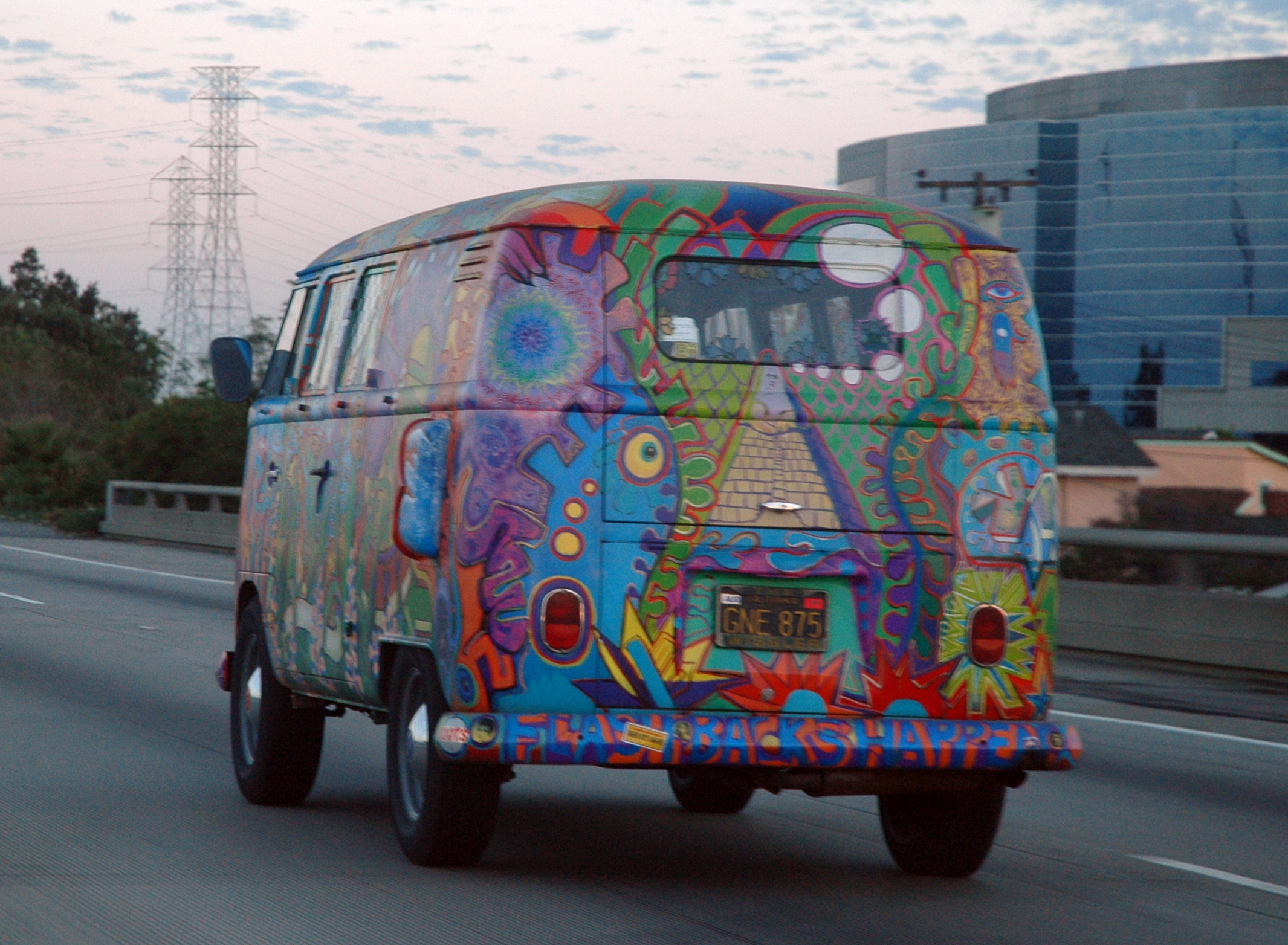 I was driving, so Michele snapped these pictures of this awesome hippie van. The back bumper reads "Flash Backs Happen".